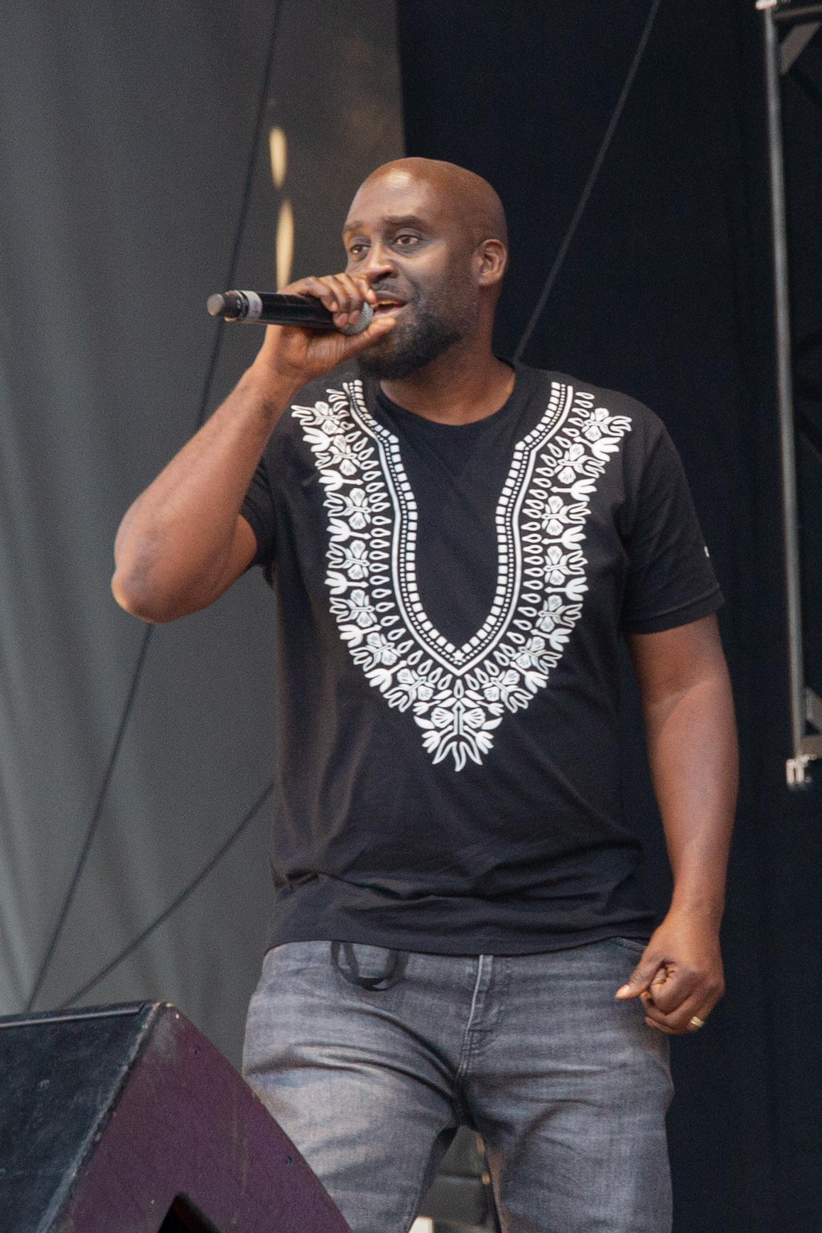 Kelvin Mercer aka Posdnous of De La Soul at Gods of Rap 2019 in Berlin, Germany - Parkbühne Wuhlheide